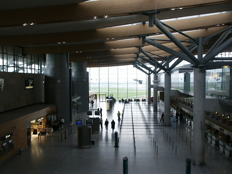 Photo of the new terminal at Cork International Airport. Photo by me, October 2007.